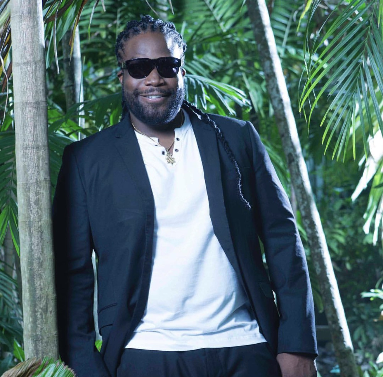 Gramps Morgan profile picture